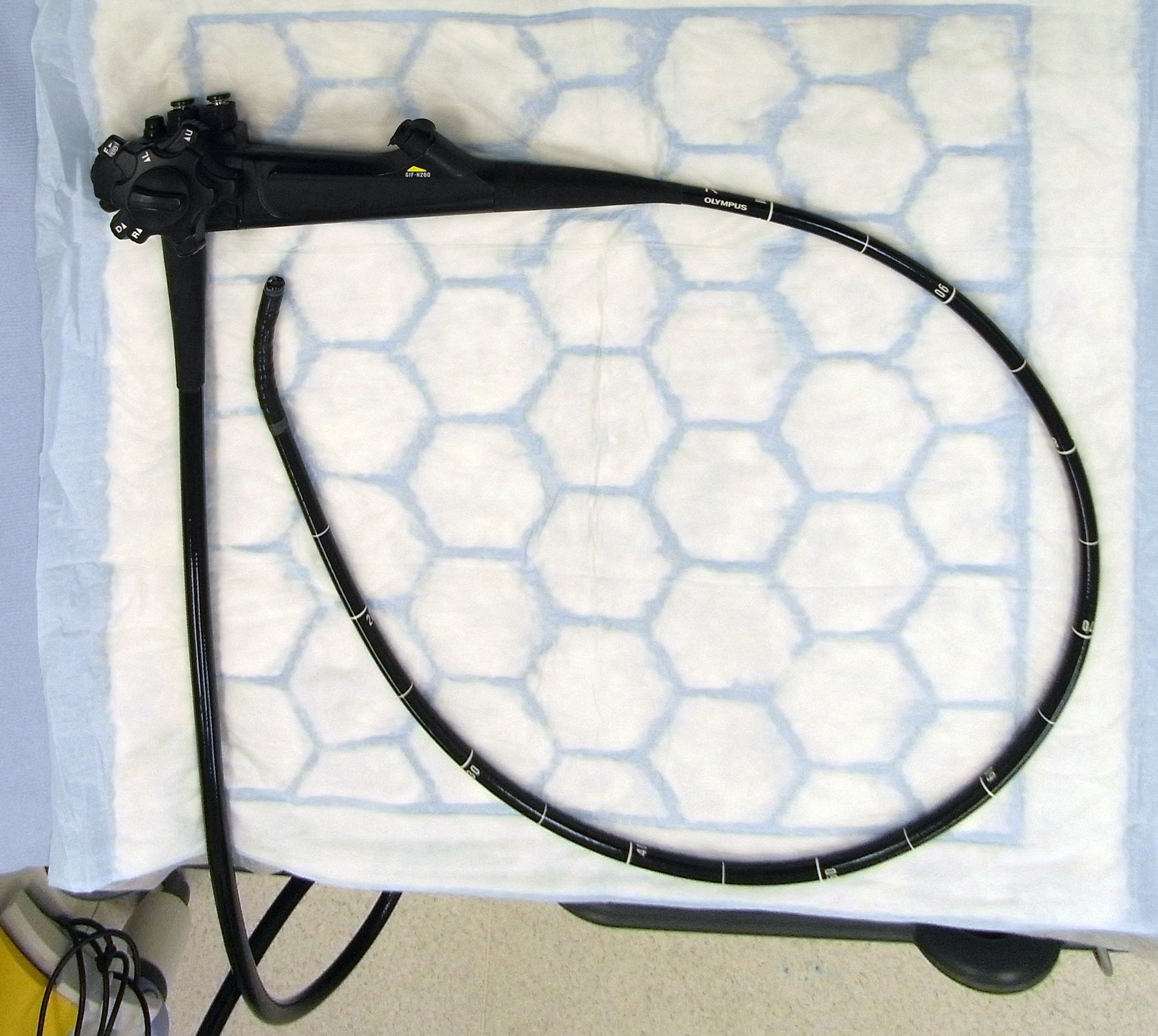 Olympus XQ260 video gastroscope